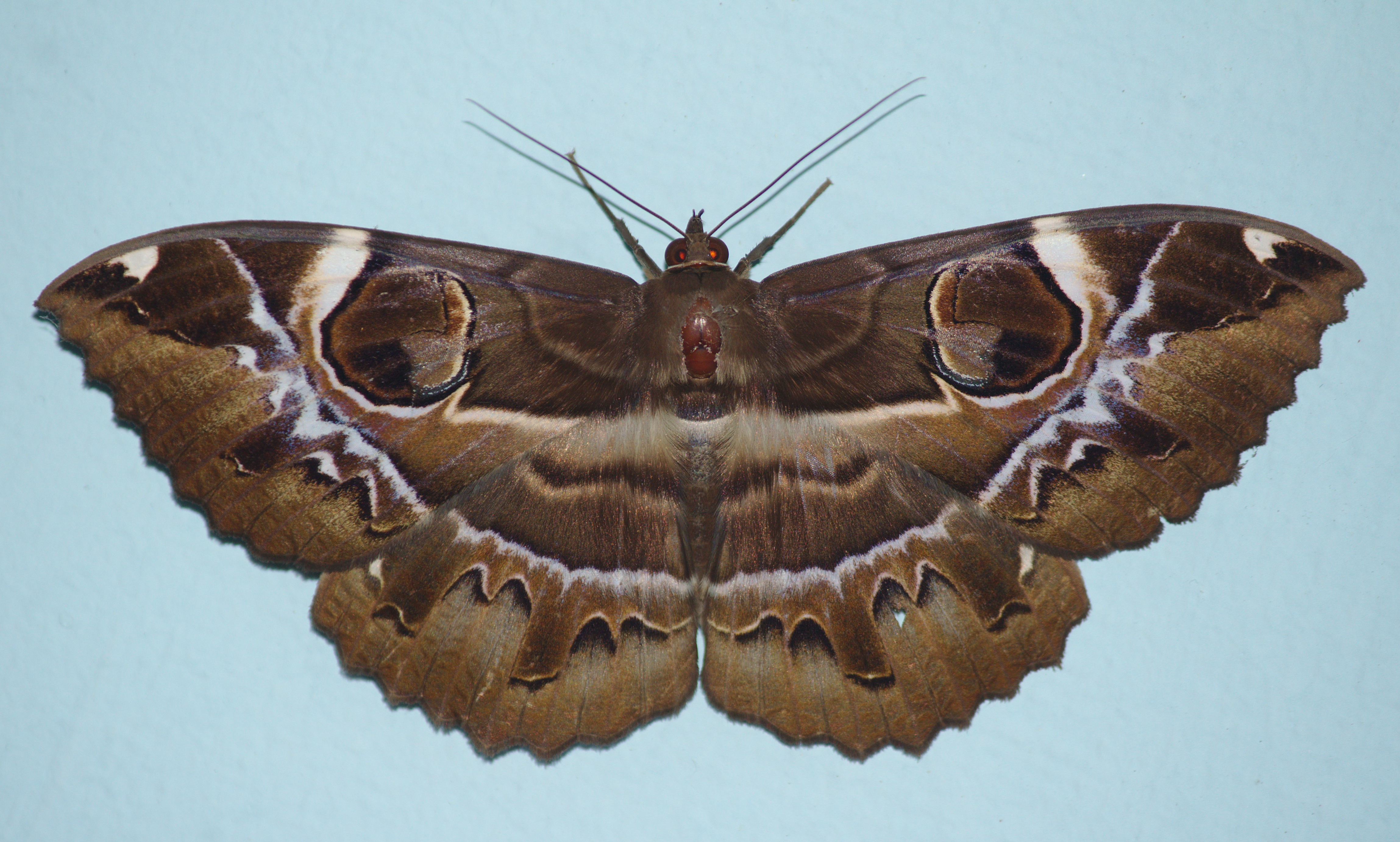 Erebus ephesperis. Photographed near Kanjirappally, Kerala, India.